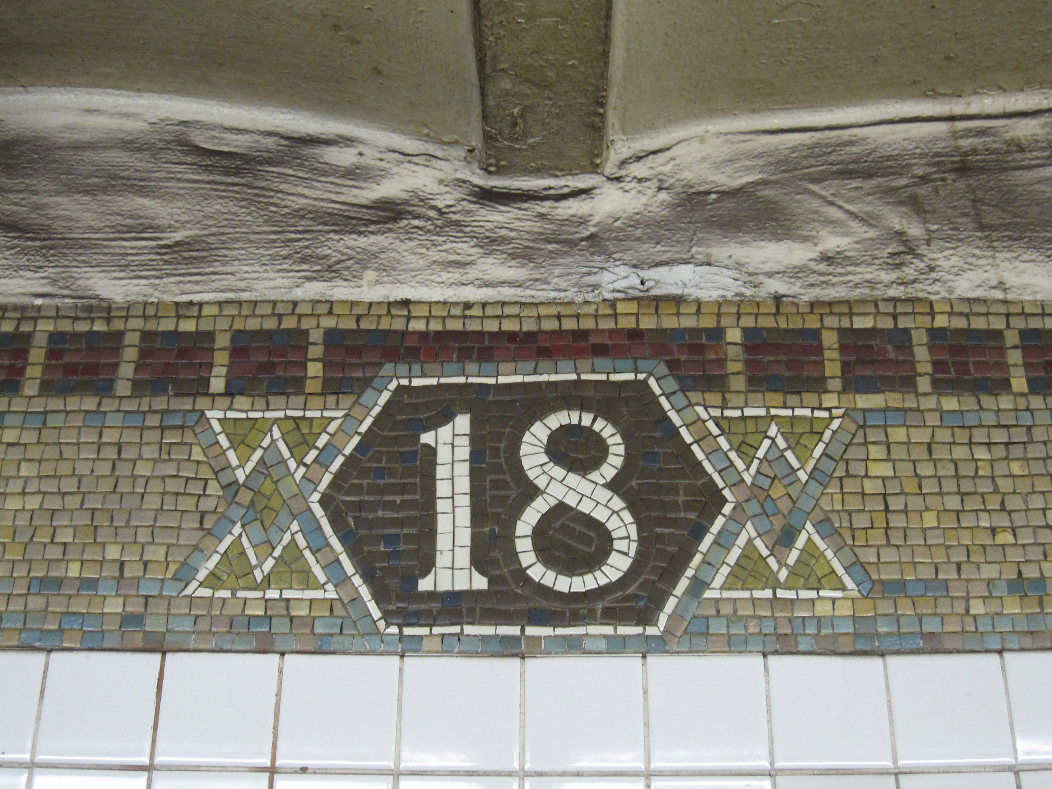 18th Street (IRT Broadway – Seventh Avenue Line)